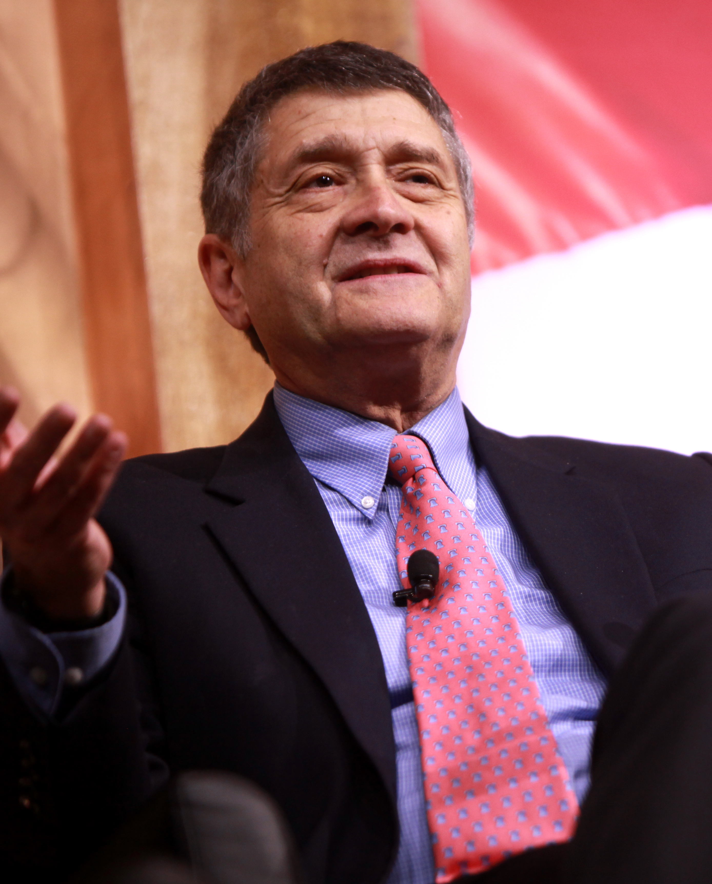 Michael Medved speaking at CPAC 2014 in Washington, DC.